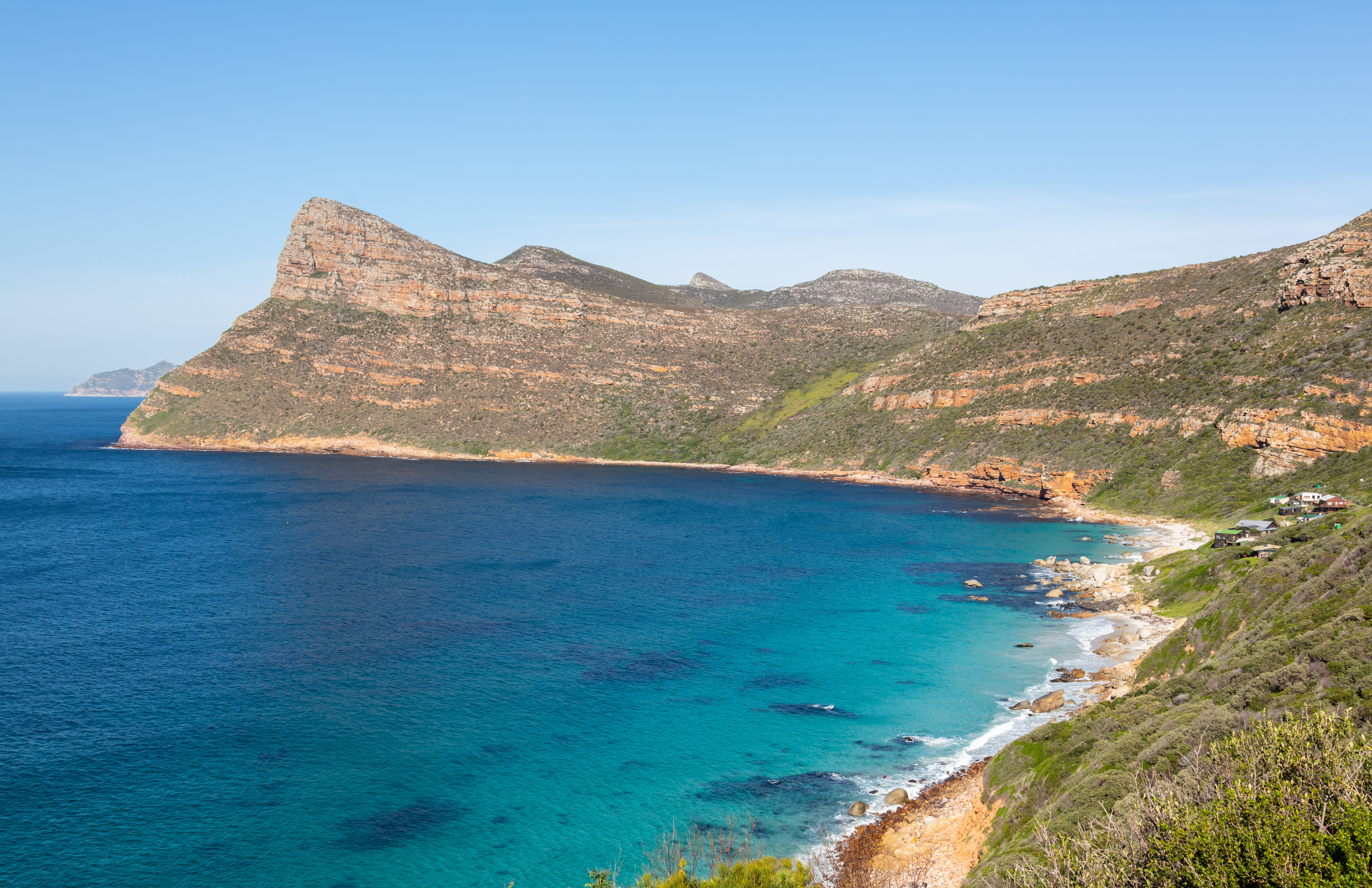 Smitswinkel Bay, South Africa